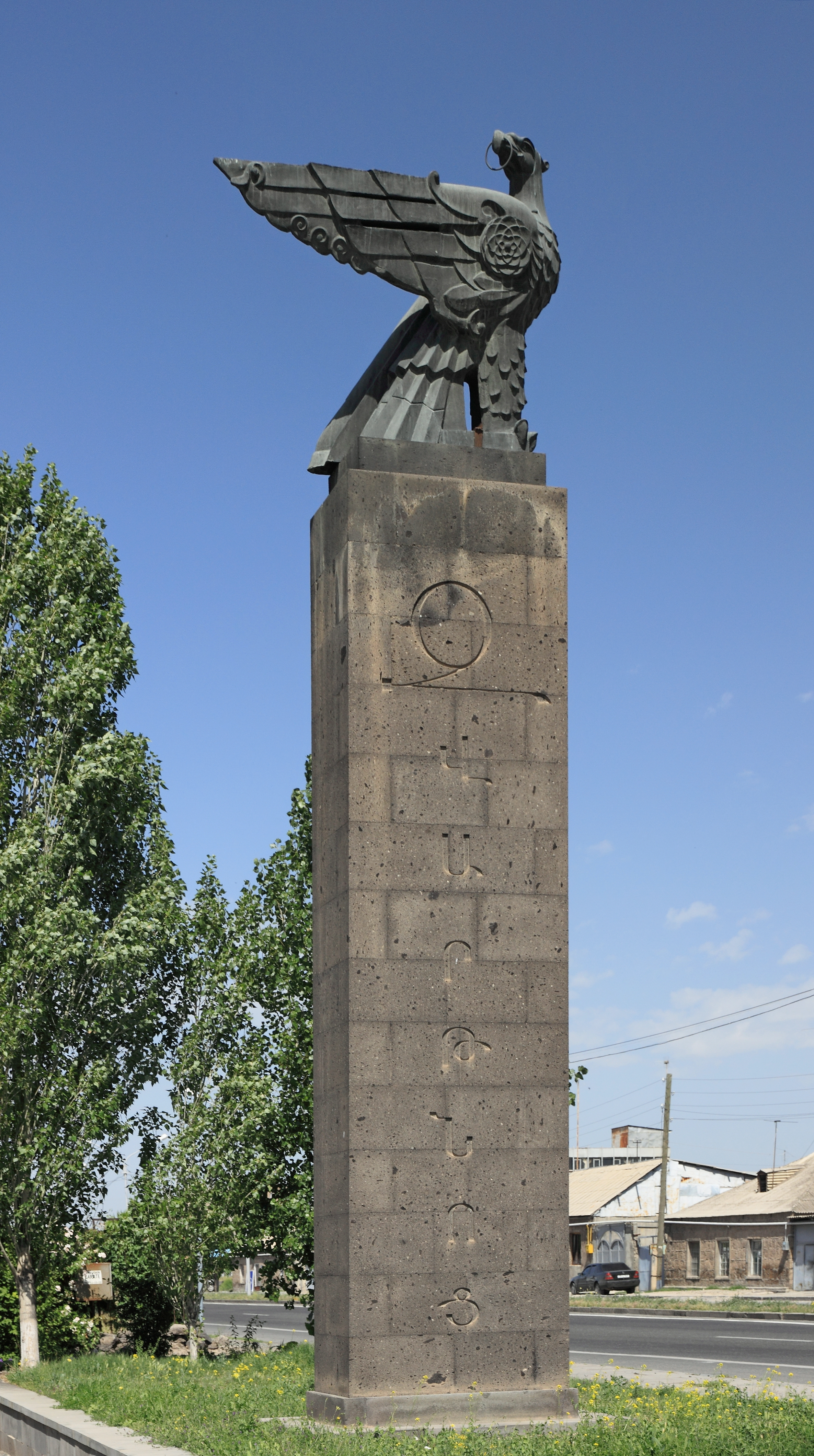 Monument at the entrance. Zvartnots, Armavir Province, Armenia.